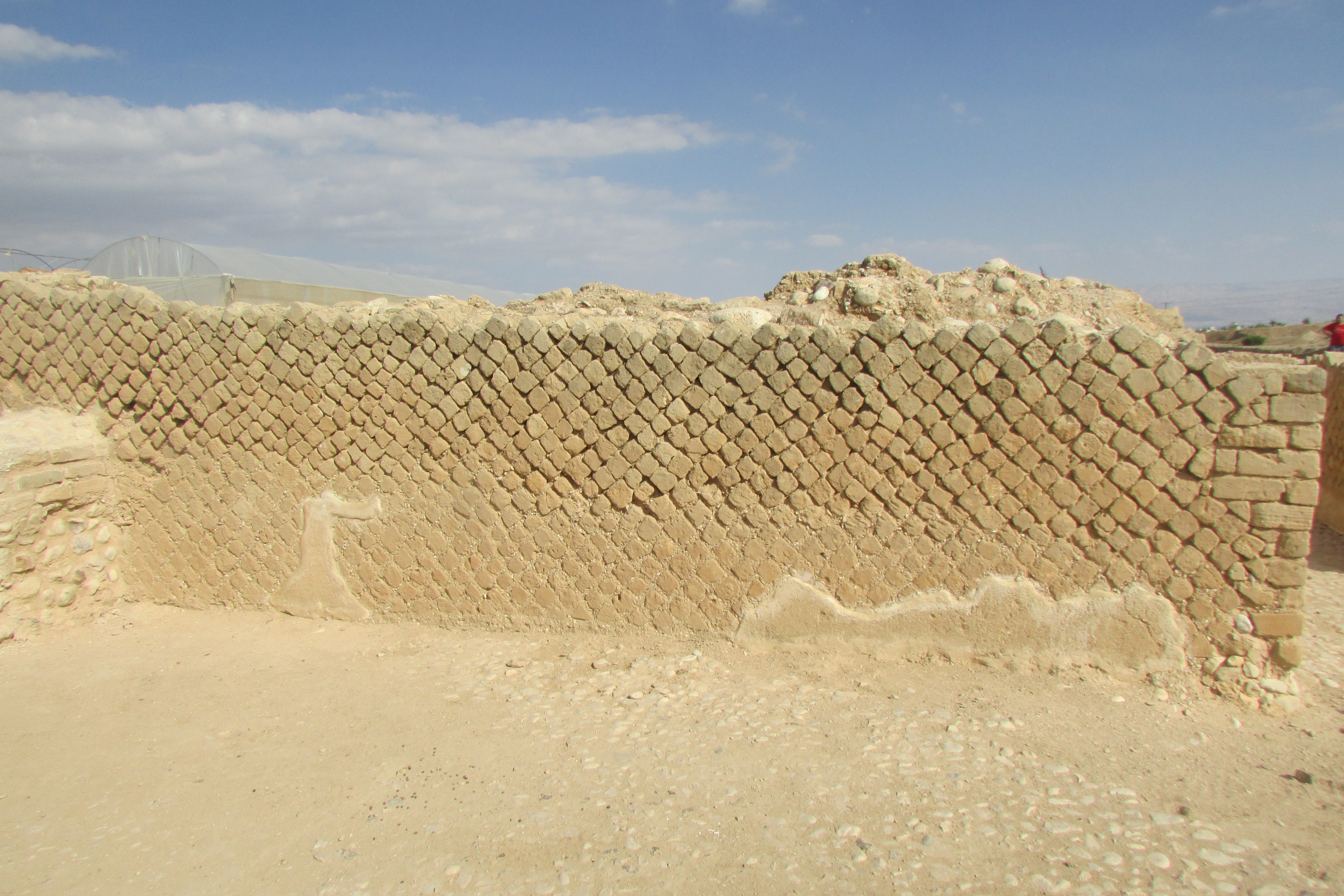 Opus reticulatum in third Herodian winter palace in Jericho